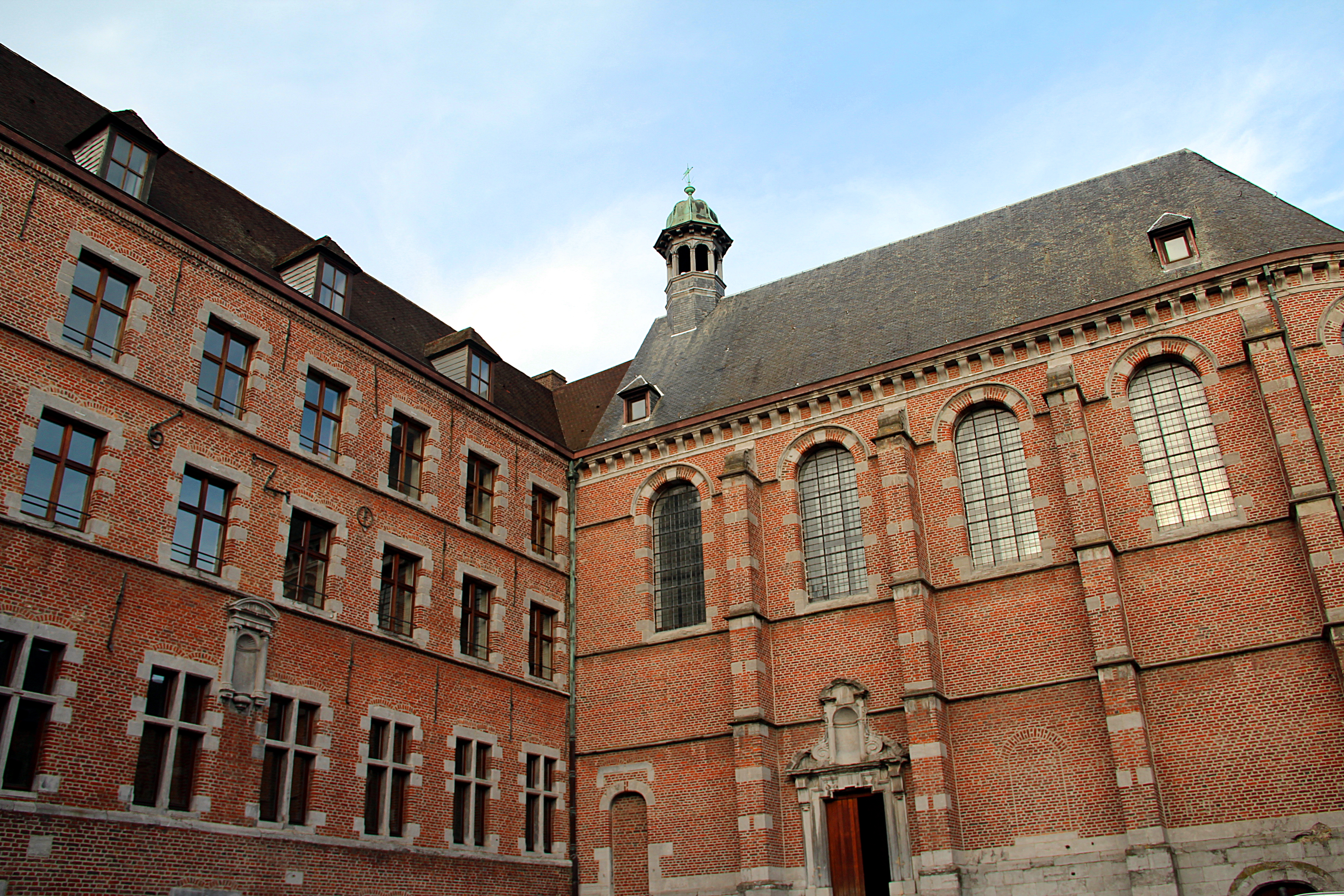 Mons (Belgium), rue de Nimy, 7 - Former convent of the Sisters of Notre Dame (XVIIth century), current music conservatory of the city.